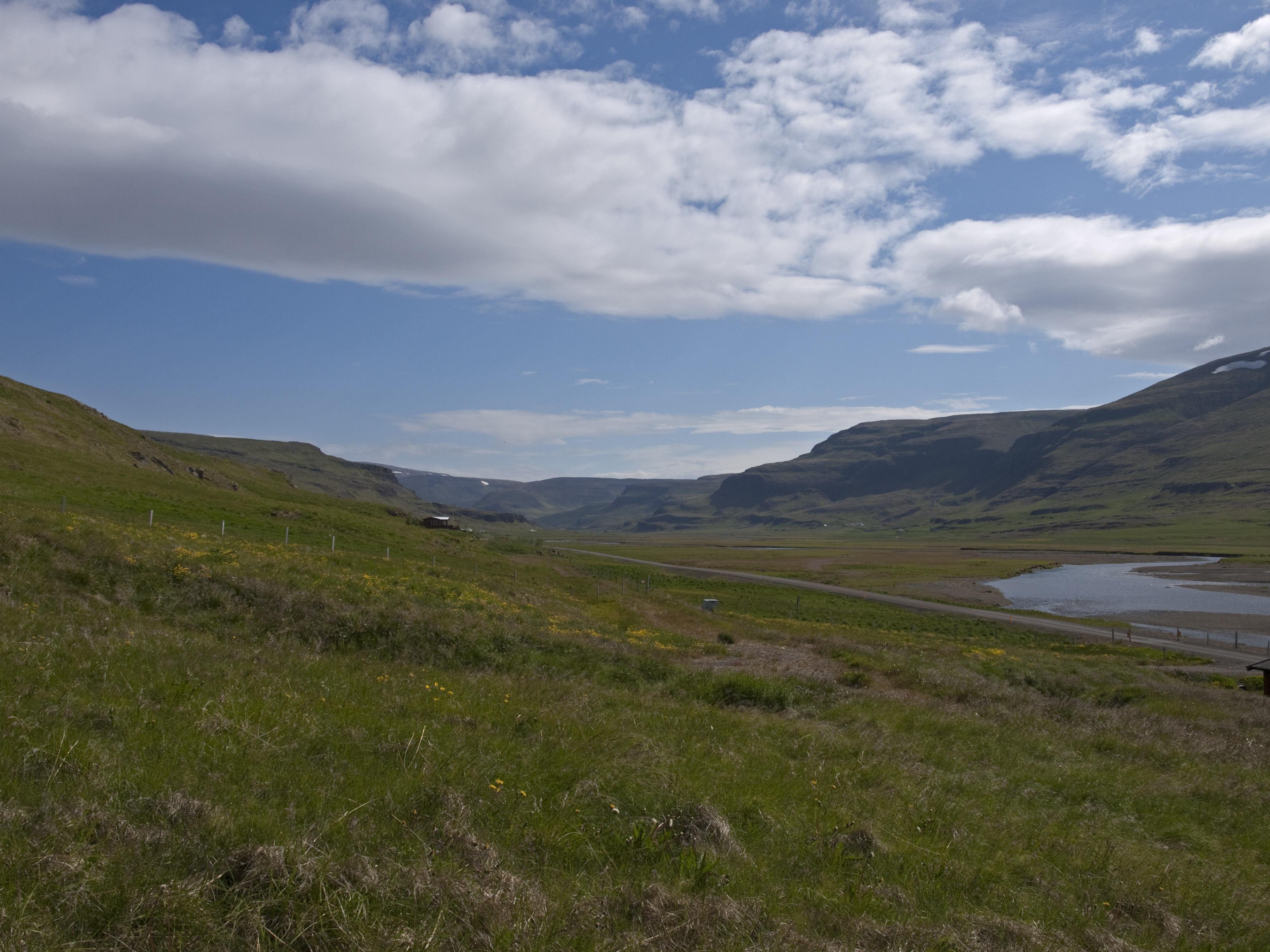 Haukadalsvegur from above Lake Haukadalsvatn